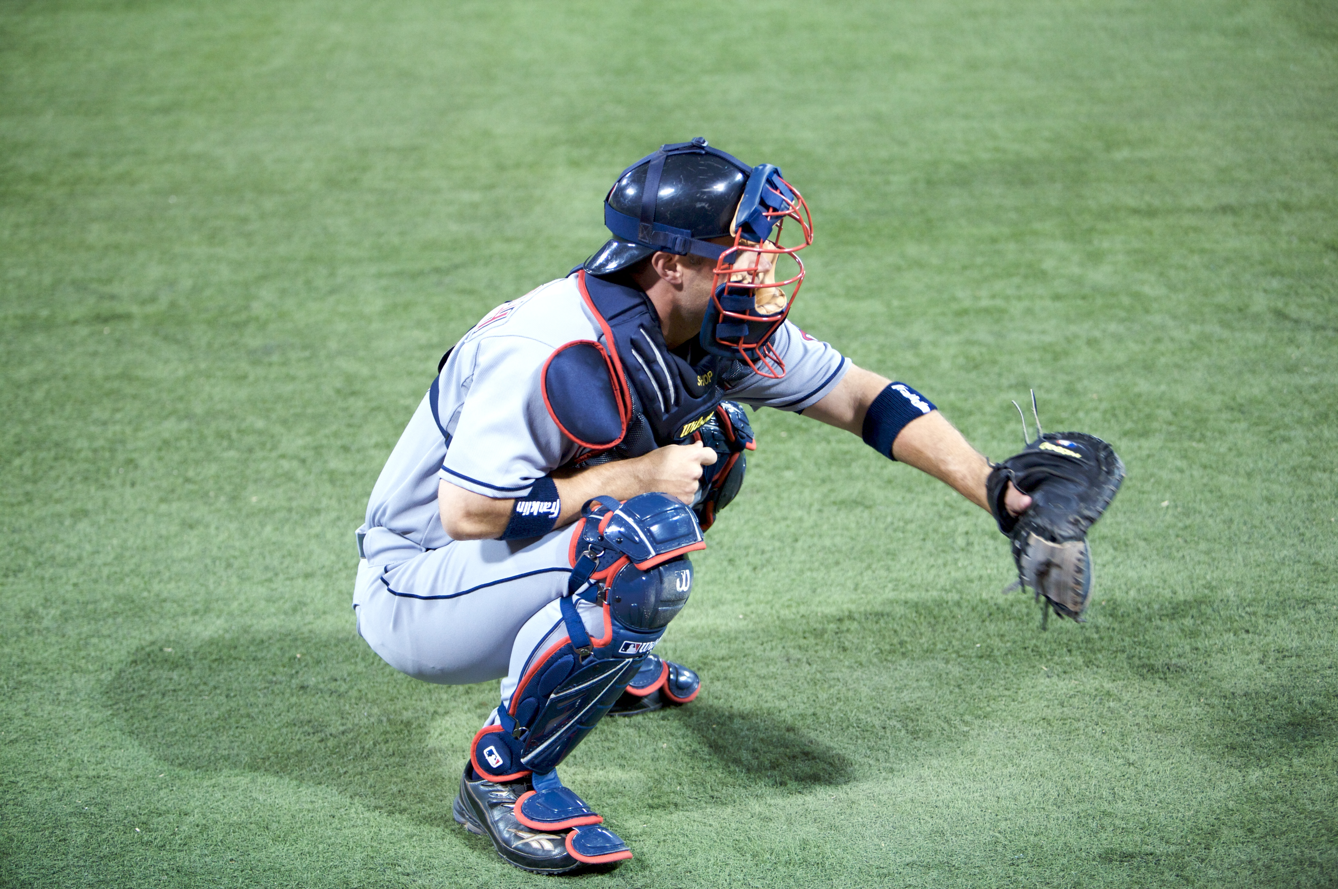 Kelly Shoppach